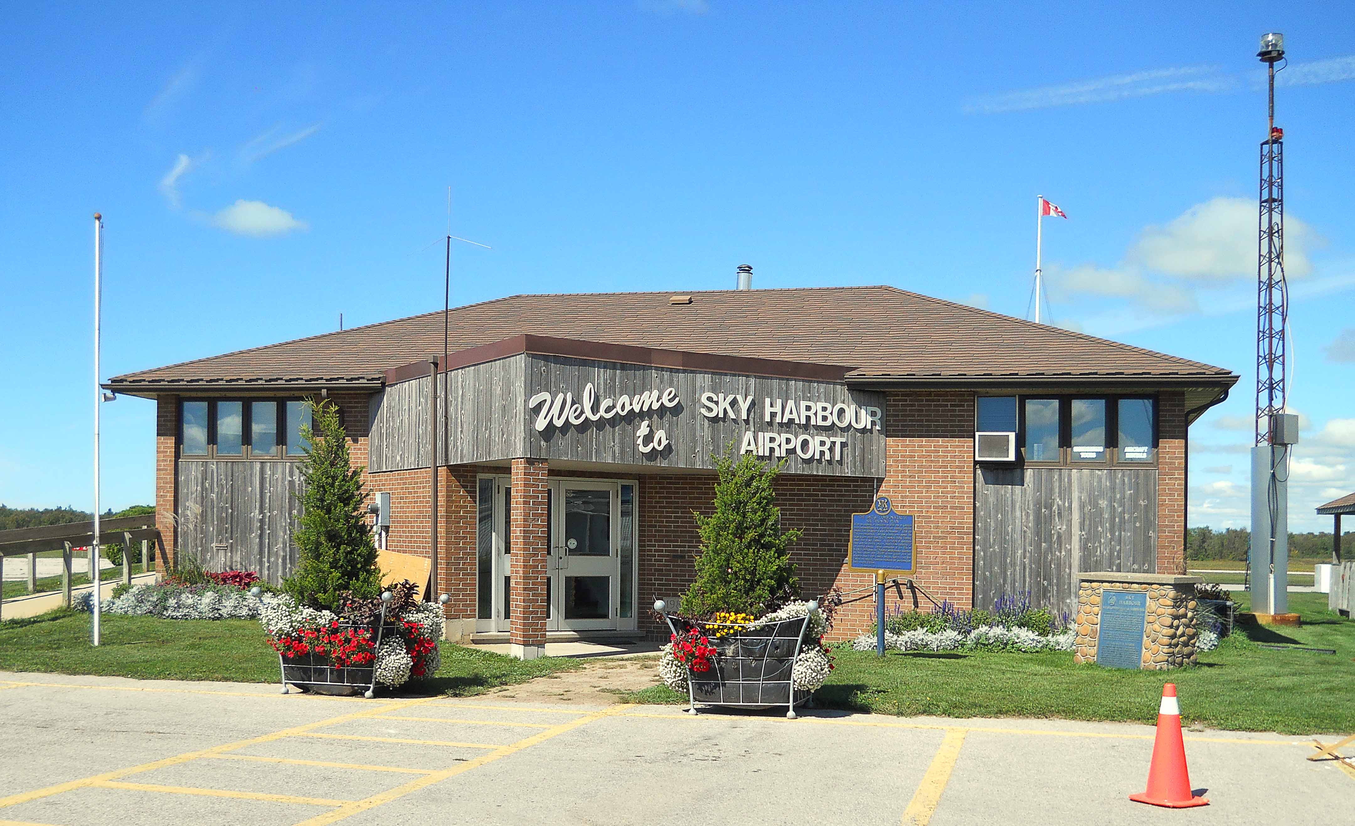 Sky Harbour Terminal Building